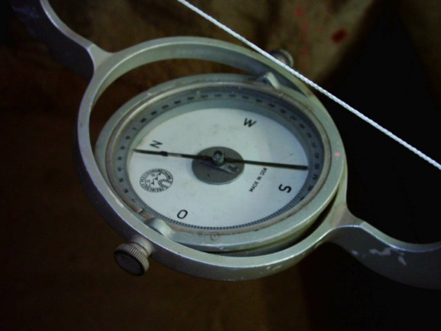 Mine surveyors compass, gradian divided circle.